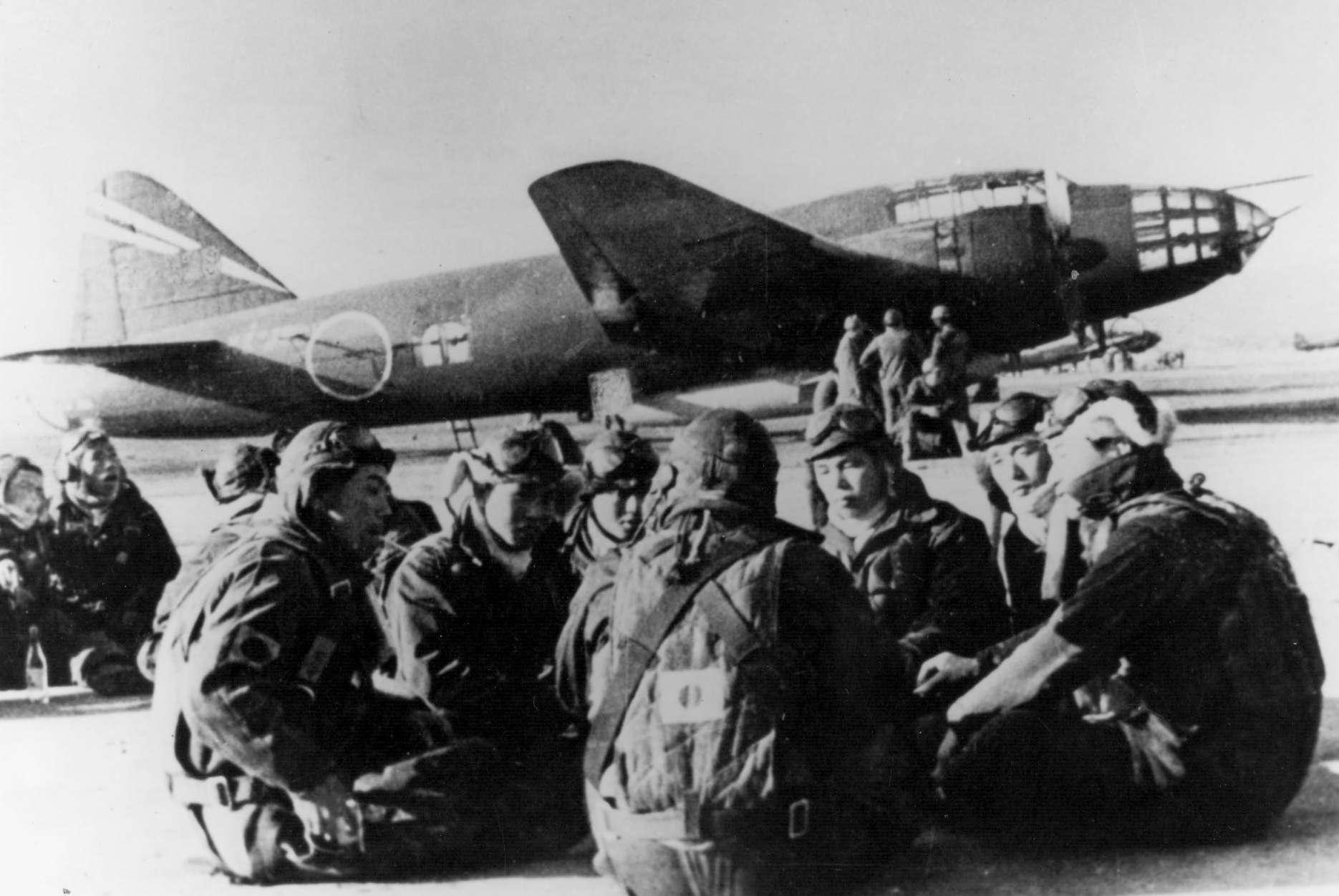 Imperial Japanese Navy Stand-by aircrews relax in front of a Mitsubishi G4M2e Model 24 Tei ("Betty") bomber carrying a Kugisho/Yokosuka MXY-7 Ohka ("Baka") Model 11 manned rocket-propelled suicide plane.